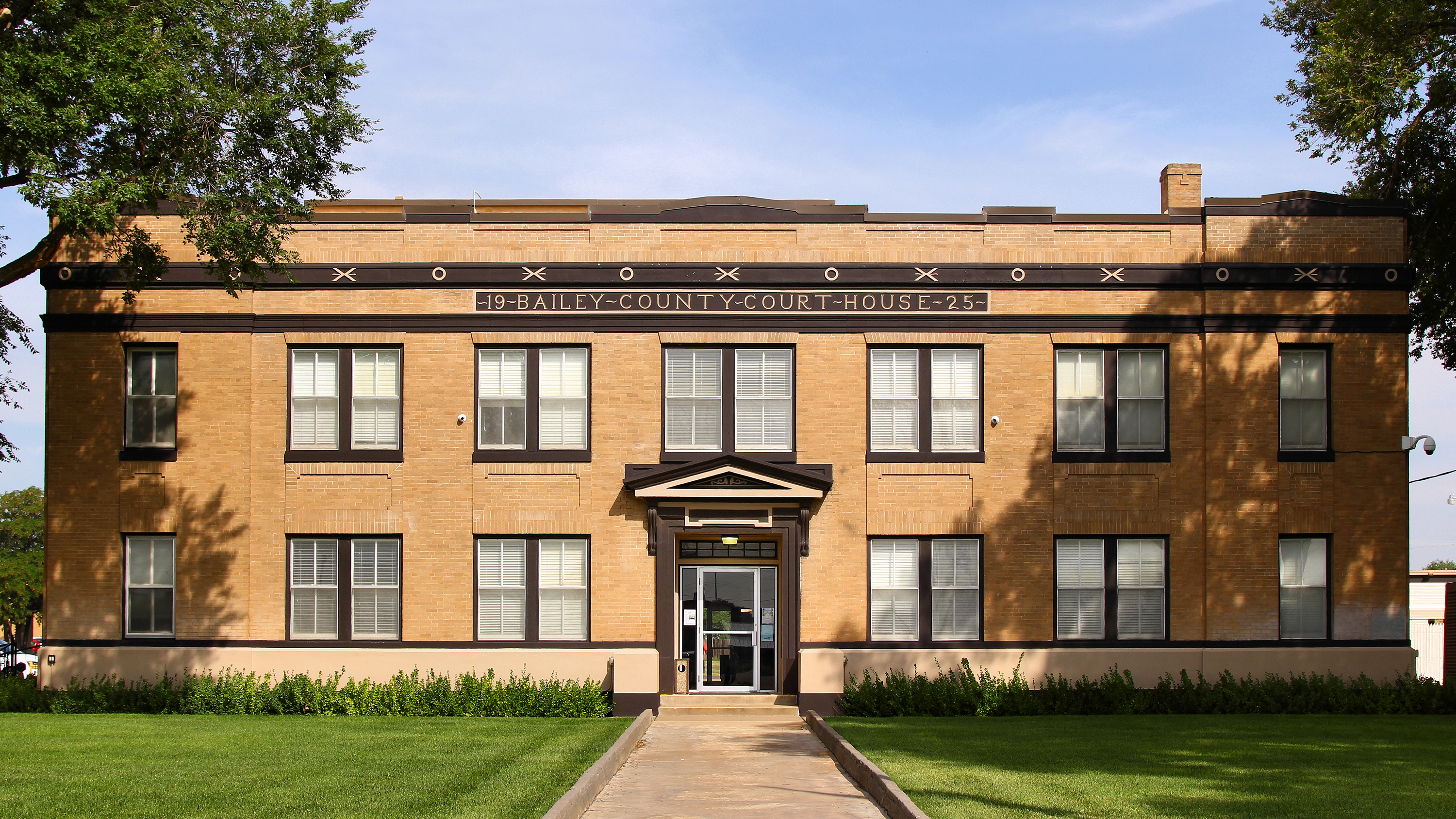 The Bailey County Courthouse in Muleshoe, Texas, United States was built in 1925.